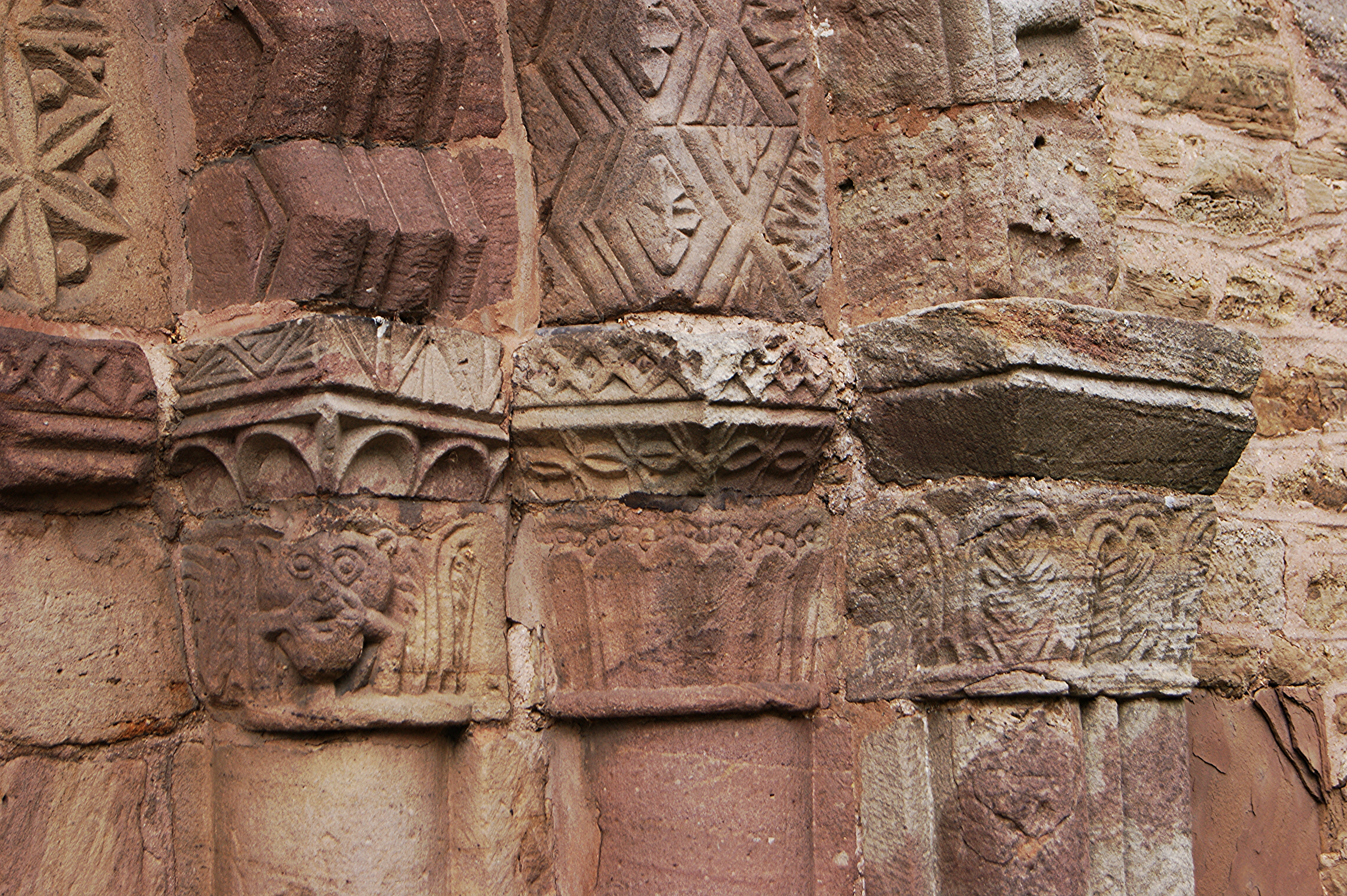 Bromyard Church (St. Peter), 22 June 2015. Pictured are the carved capitals of columns surrounding the main 12th Century Norman doorway.